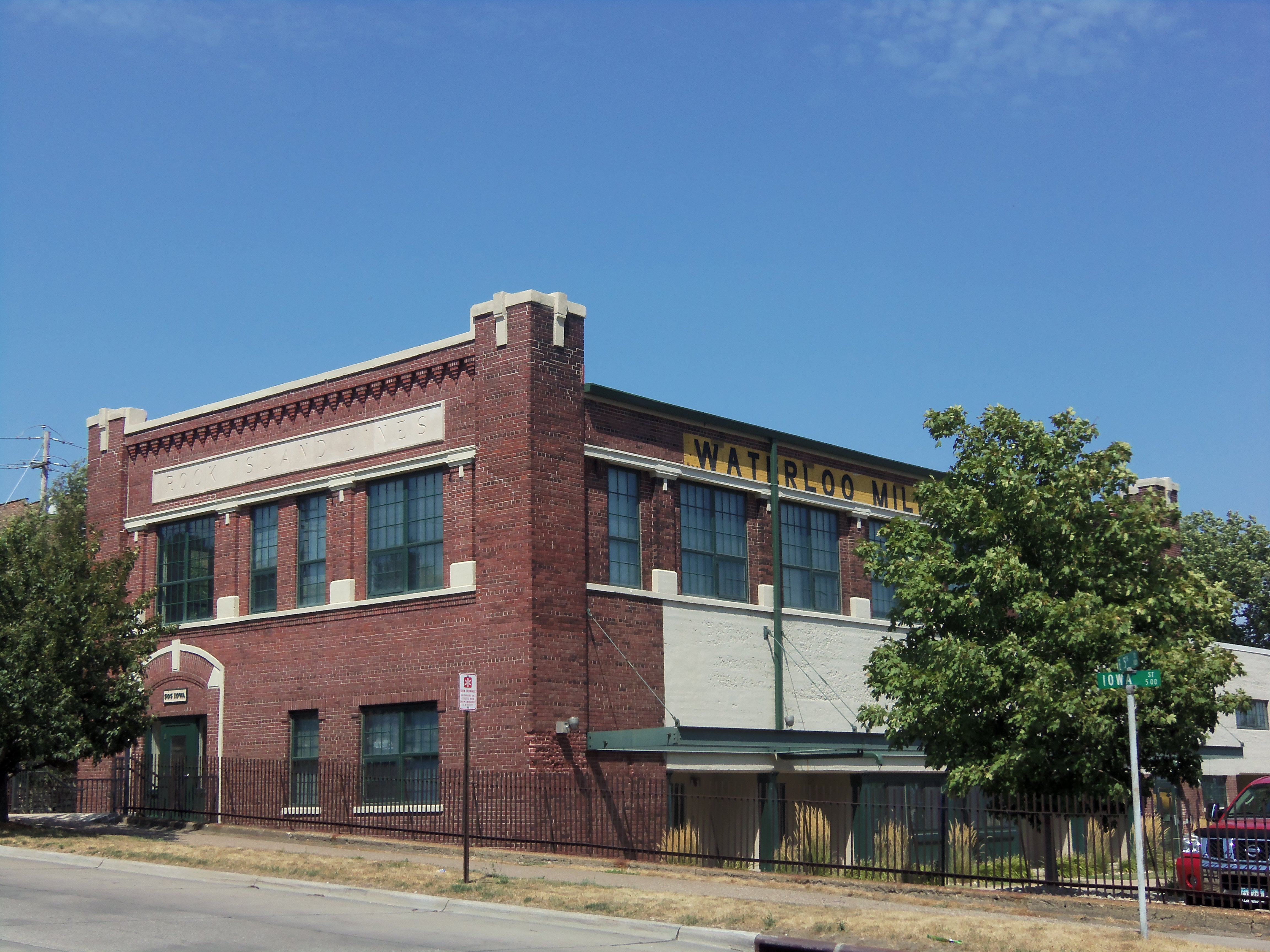 The CRI&P Freighthouse in downtown Davenport, Iowa is a contributing property in the Crescent Warehouse Historic District, which is listed on the National Register of Historic Places. The building now contains apartments.